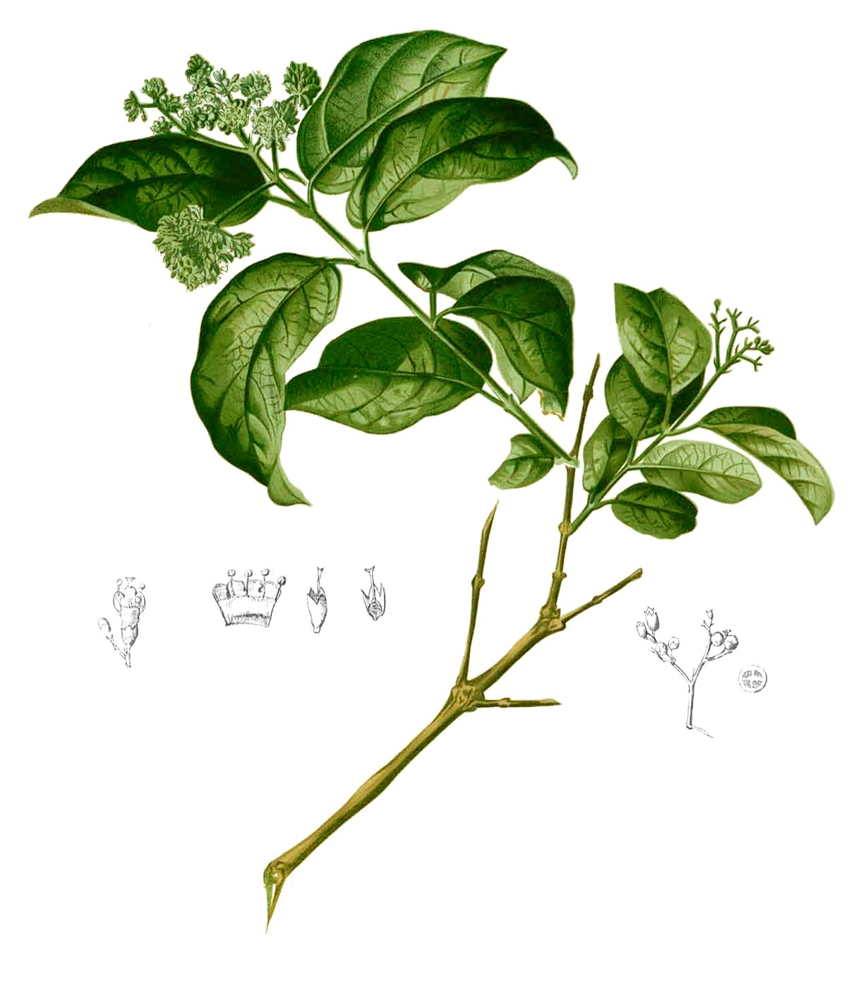 Plate from book